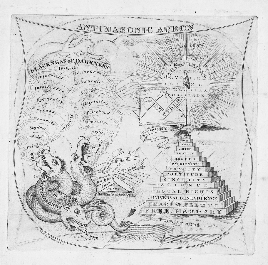 An attack on the Antimasonic party, produced shortly after their September national convention in Baltimore. The "apron" symbolically contrasts the Masons with the Antimasons. On the right is a "Rock of Ages" on which stands a pyramid with steps labelled (from the bottom upwards): Free Masonry, Peace & Plenty, Equal Rights, Science, Sincerity, Fortitude, Charity, Patriotism, Honour, Fidelity, Virtue, Order, Law, and U.S. On the top sits an eagle with a streamer inscribed "Victory" and a staff with liberty cap and flag with the masonic device of a compass and right angle with the words "Just & True." Around the liberty cap is an aureole of "Perfect Light." On the left is a three-headed "Hydra of Antimasonry," and a pile of broken timbers resting on a "sandy foundation." From two of the hydra's mouths issue "Blackness of Darkness" and a list of evils, including Persecution, Intolerance, Hypocrisy, Slavery, Anarchy, Filth, etc. The timbers are marked: Baseless Fabric, Arnold, Bernard, Stramonium, and Judas. The whole design is enclosed in an apron-shaped border.